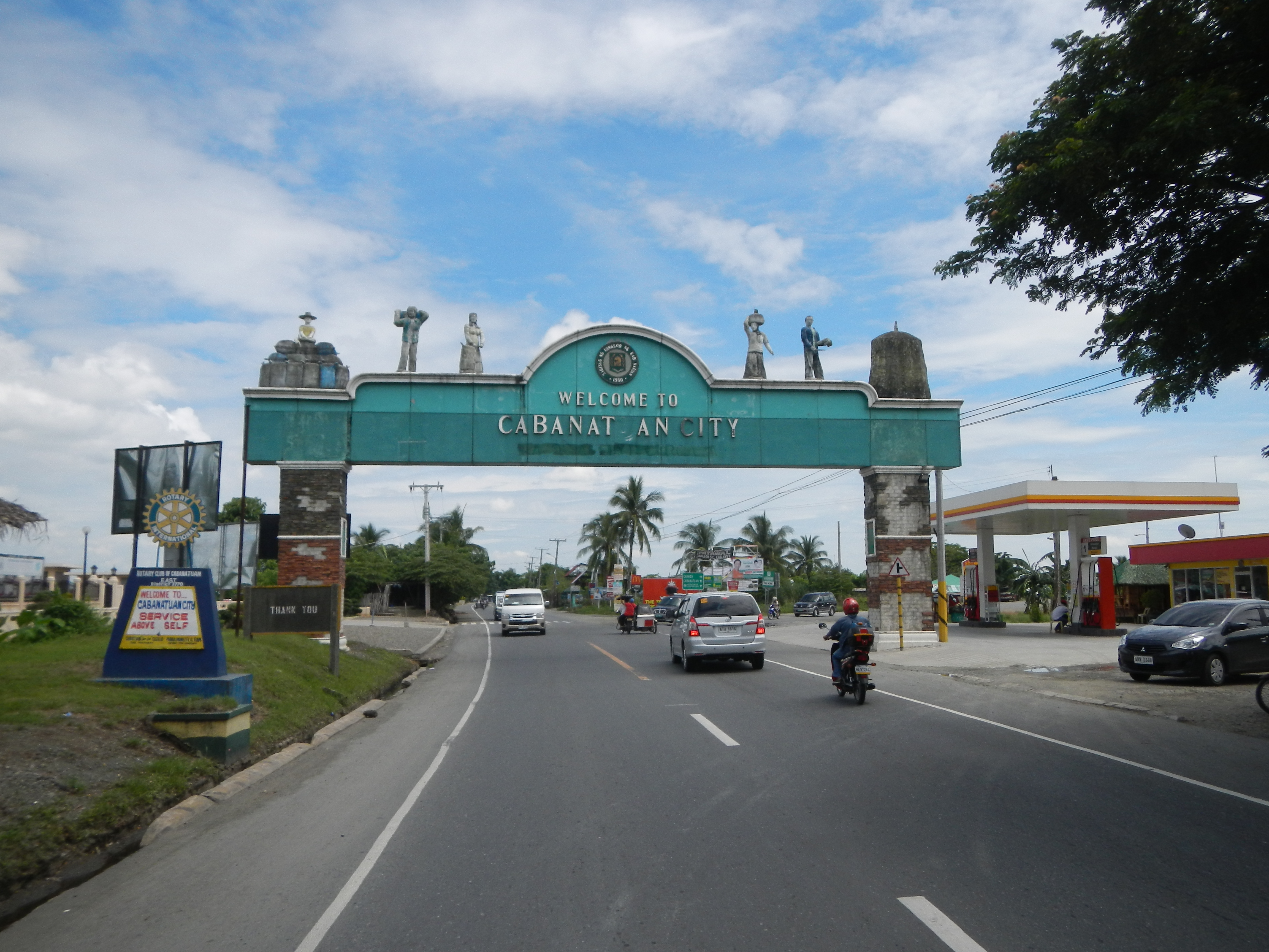 Maharlika Highway (Cagayan Valley Road, Cabanatuan City) - Pan-Philippine Highway, also known as the Maharlika "Nobility/freeman" Asian AH26 Highway in Cagayan Valley Road from Barangays H. R. Concepcion to Caalibangbangan, the last Barangay of , Cabanatuan City - interconnecting with Maharlika Highway (Cagayan Valley Road, Talavera-Santo Domingo-Quezon-Science City of Muñoz, Nueva Ecija section) at the Welcome Arch of Cabanatuan City in Talavera, Nueva Ecija.